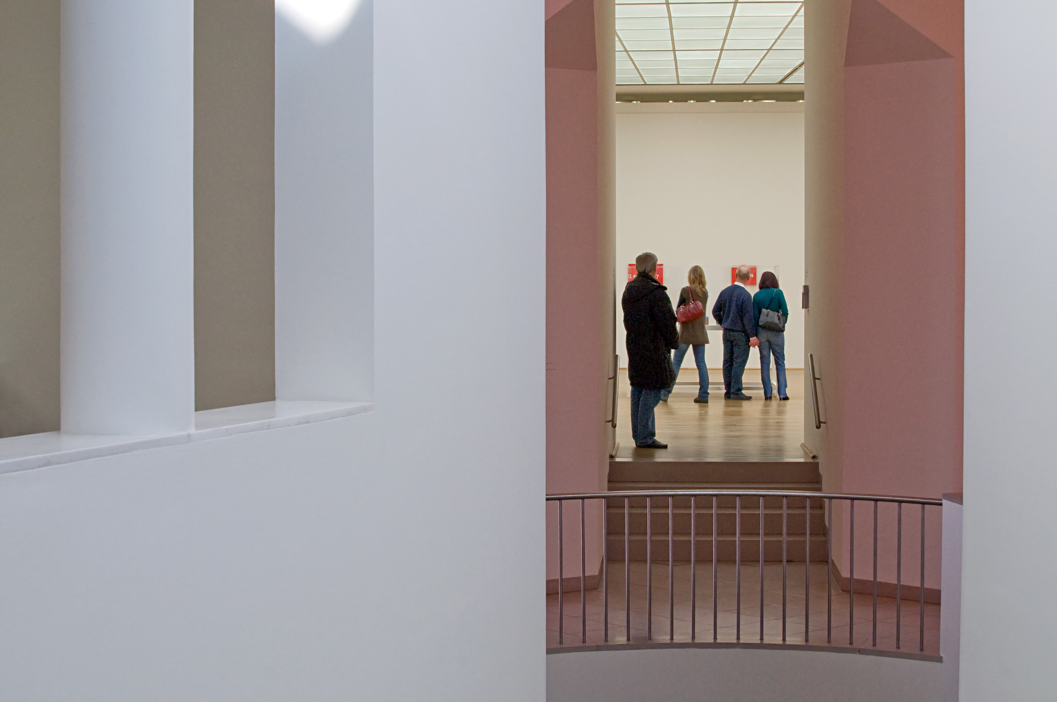 Appreciation of art